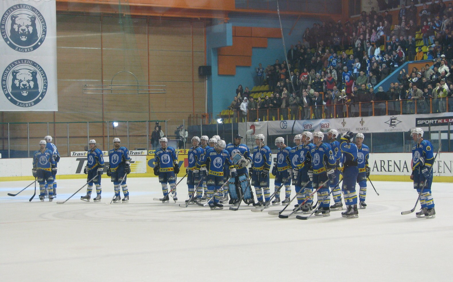 KHL Medveščak team